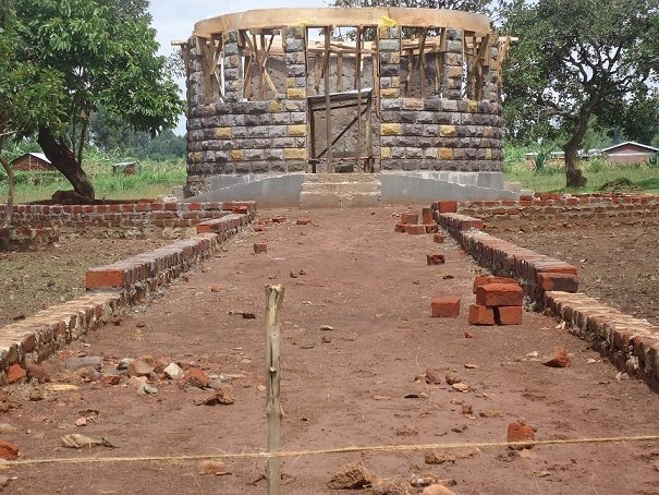 The Museleum of Elijah Masinde under construction (CIR.2012)